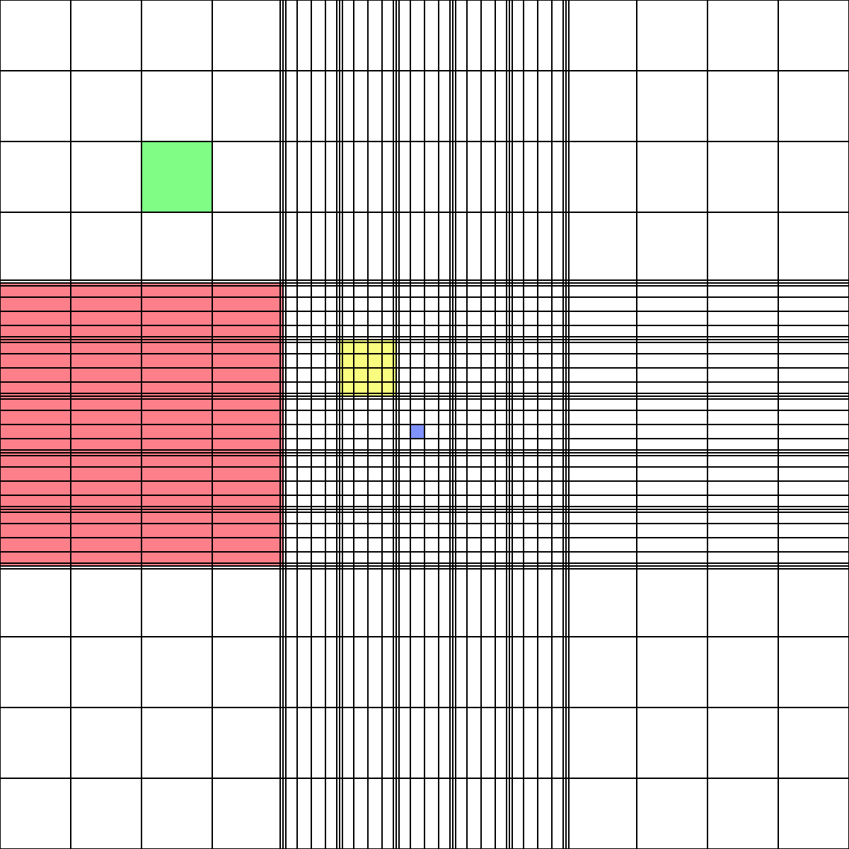 By Richard Wheeler (Zephyris) 2007. Haemocytometer grid: red square = 1.0000 mm2, 100.00 nl green square = 0.0625 mm2, 6.250 nl yellow square = 0.040 mm2, 4.00 nl blue square = 0.0025 mm2, 0.25 nl at a depth of 0.1 mm.